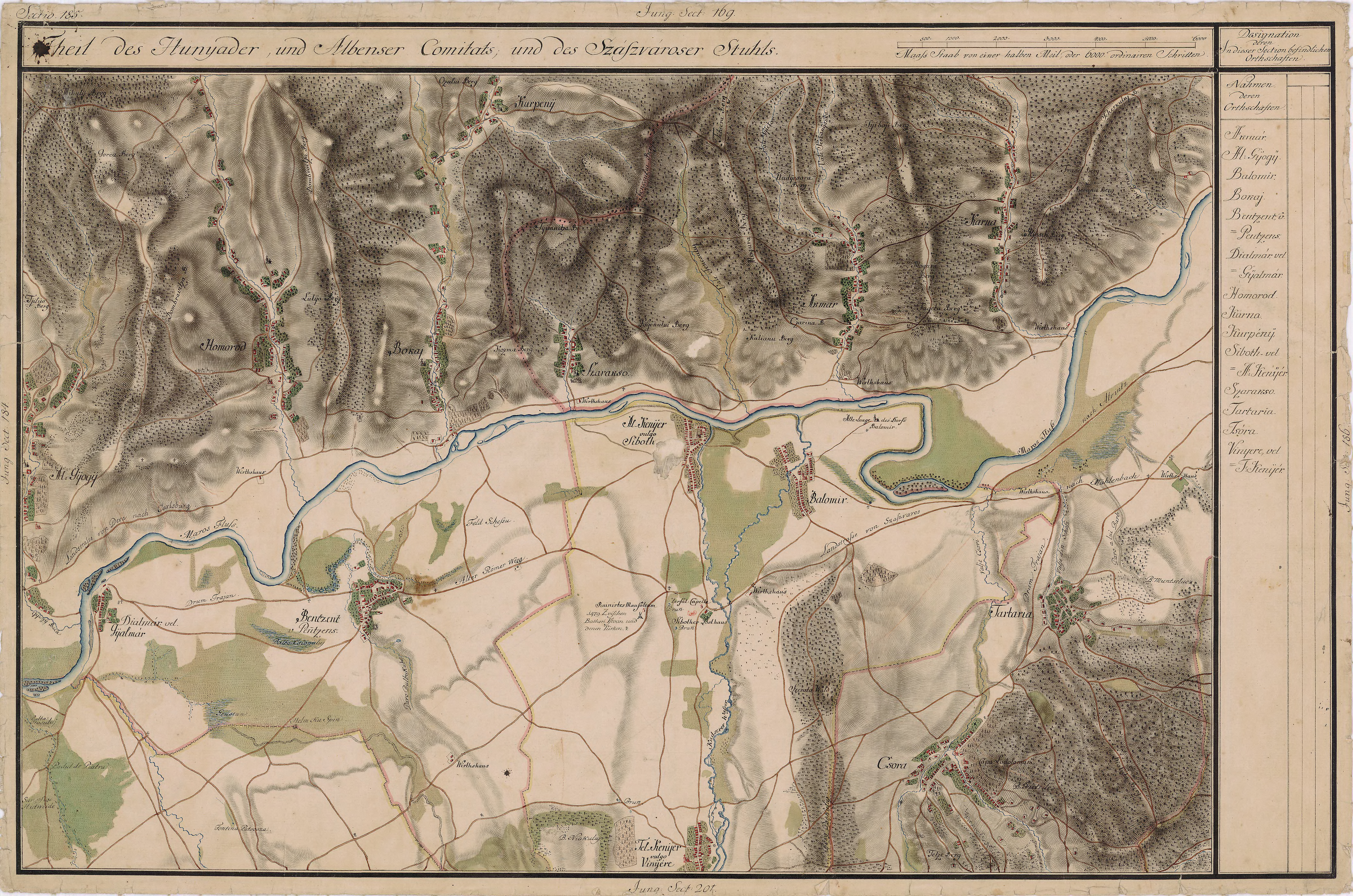 Grand Duchy of Transylvania, 1769-1773. Josephinische Landaufnahme pg.185